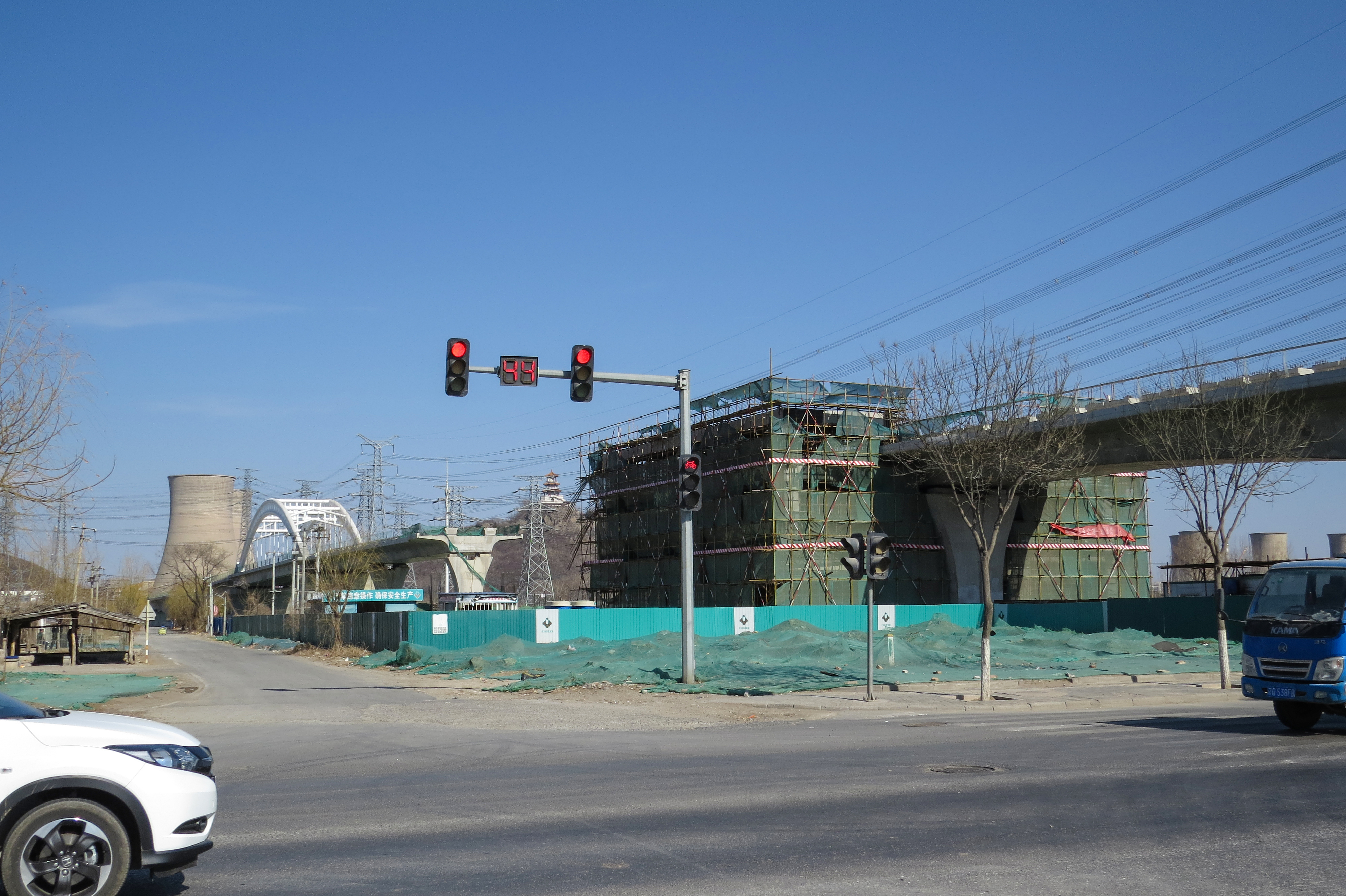 Actually Houzhuangzi Xincun. Yangsan is on the other side.